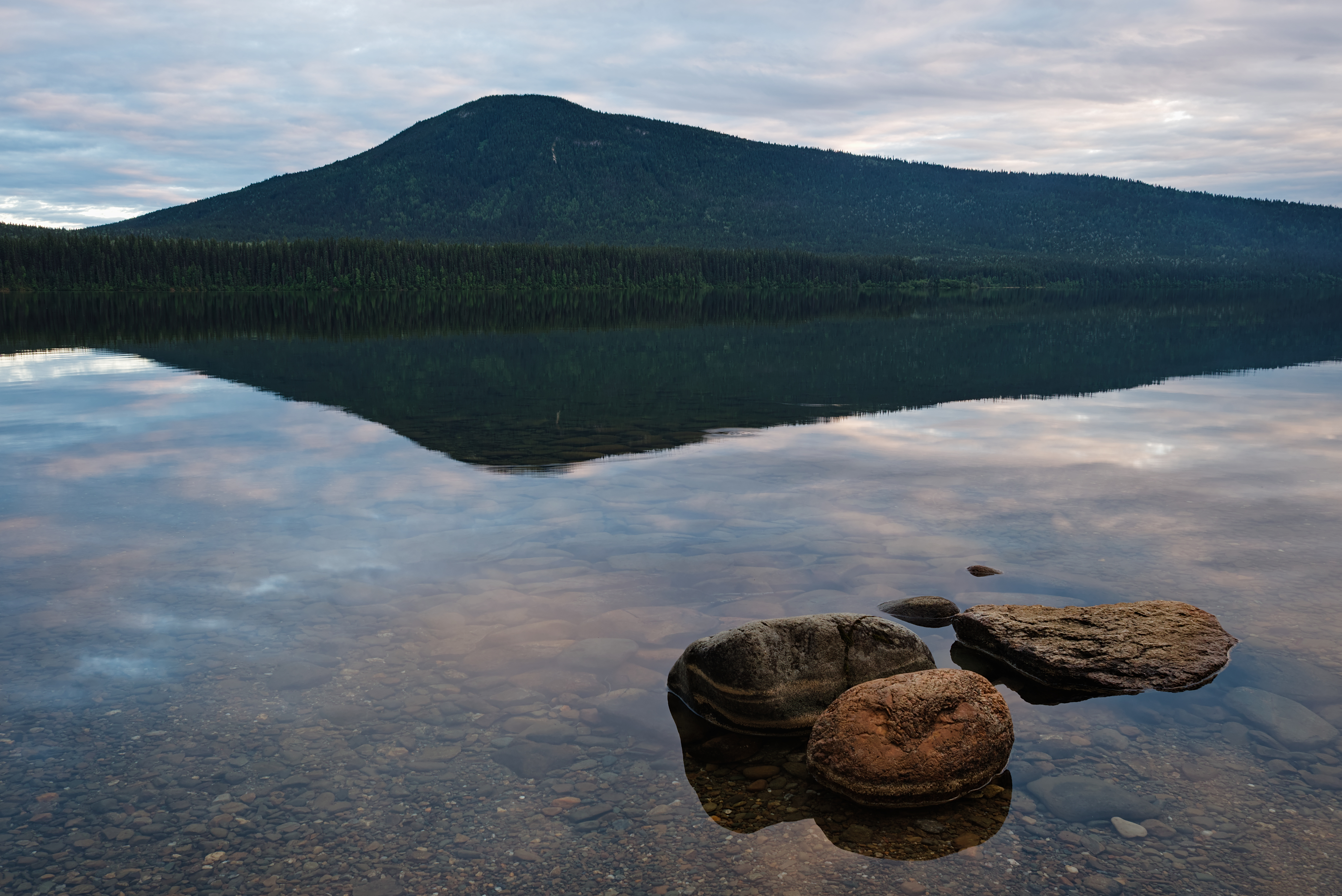 Indianpoint Lake during golden hour (Bowron Lake Provincial Park, BC) This photo was taken in a protected area in Canada, Wikidata item Bowron Lake Provincial Park (Q4951406)